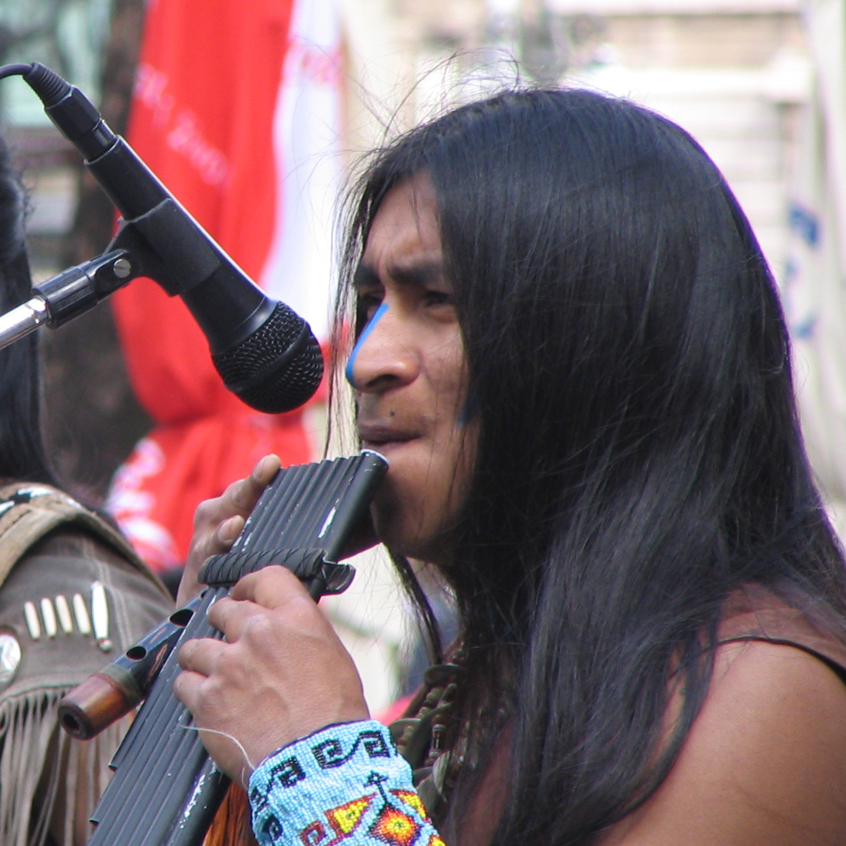 Latinoamerican Pan flute